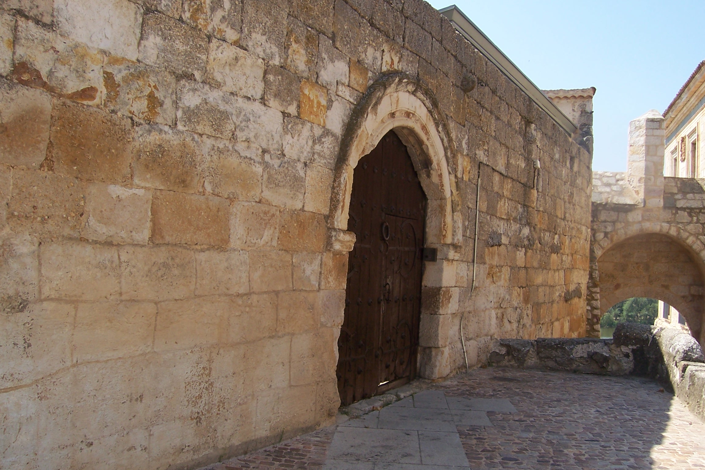 House called of El Cid in Zamora, Spain. Historic-Artistic Monument: 06-03-1931. Civil romanesque building located on the wall and at the Puerta de Olivares.